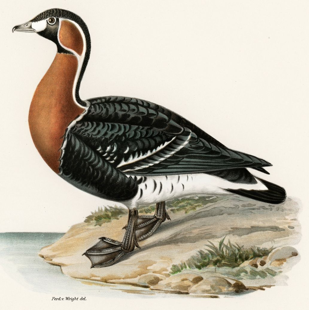 Branta ruficollis. Svenska fåglar